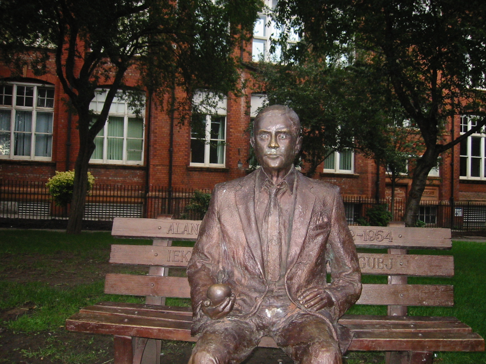 Alan Turing memorial statue in Sackville Park, 18 Sep 2004